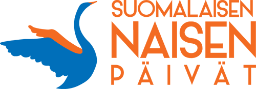 Stichting Finnish Women’s Day Netherlands